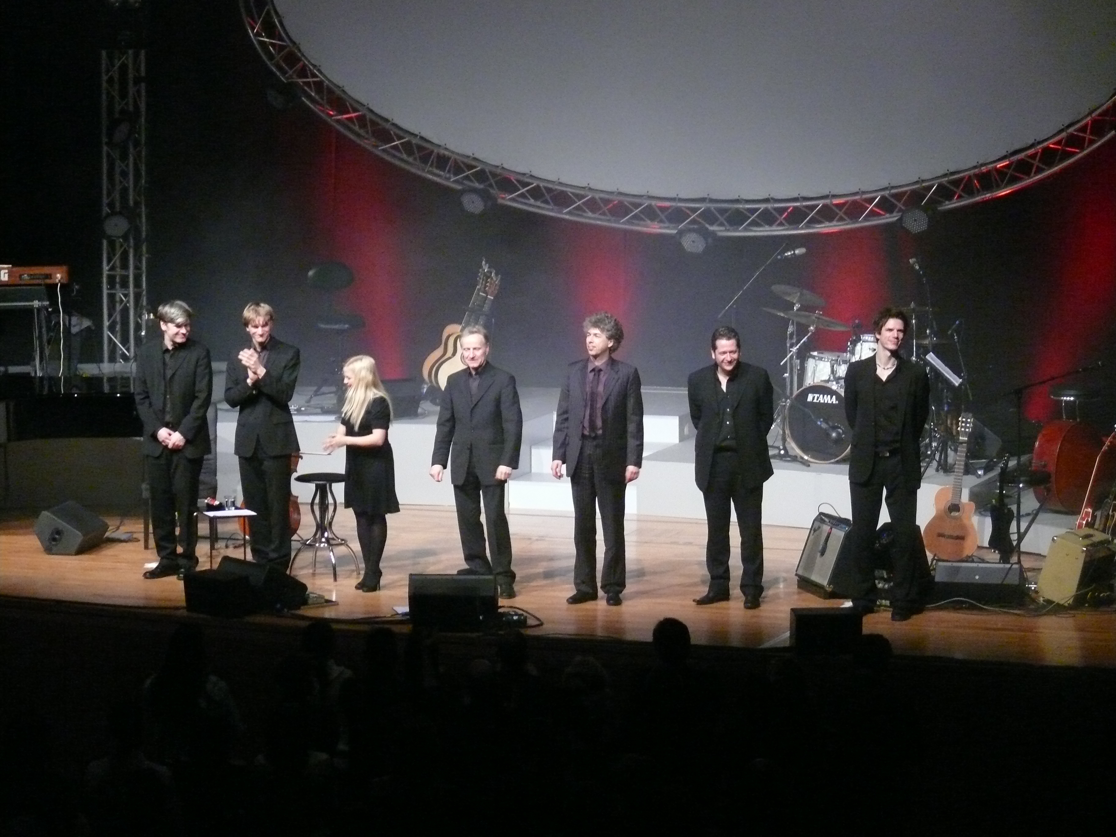 Annett Louisan Band.JPG